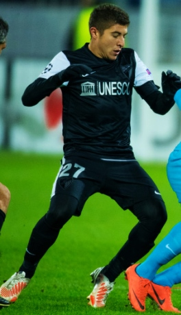 Francisco Portillo